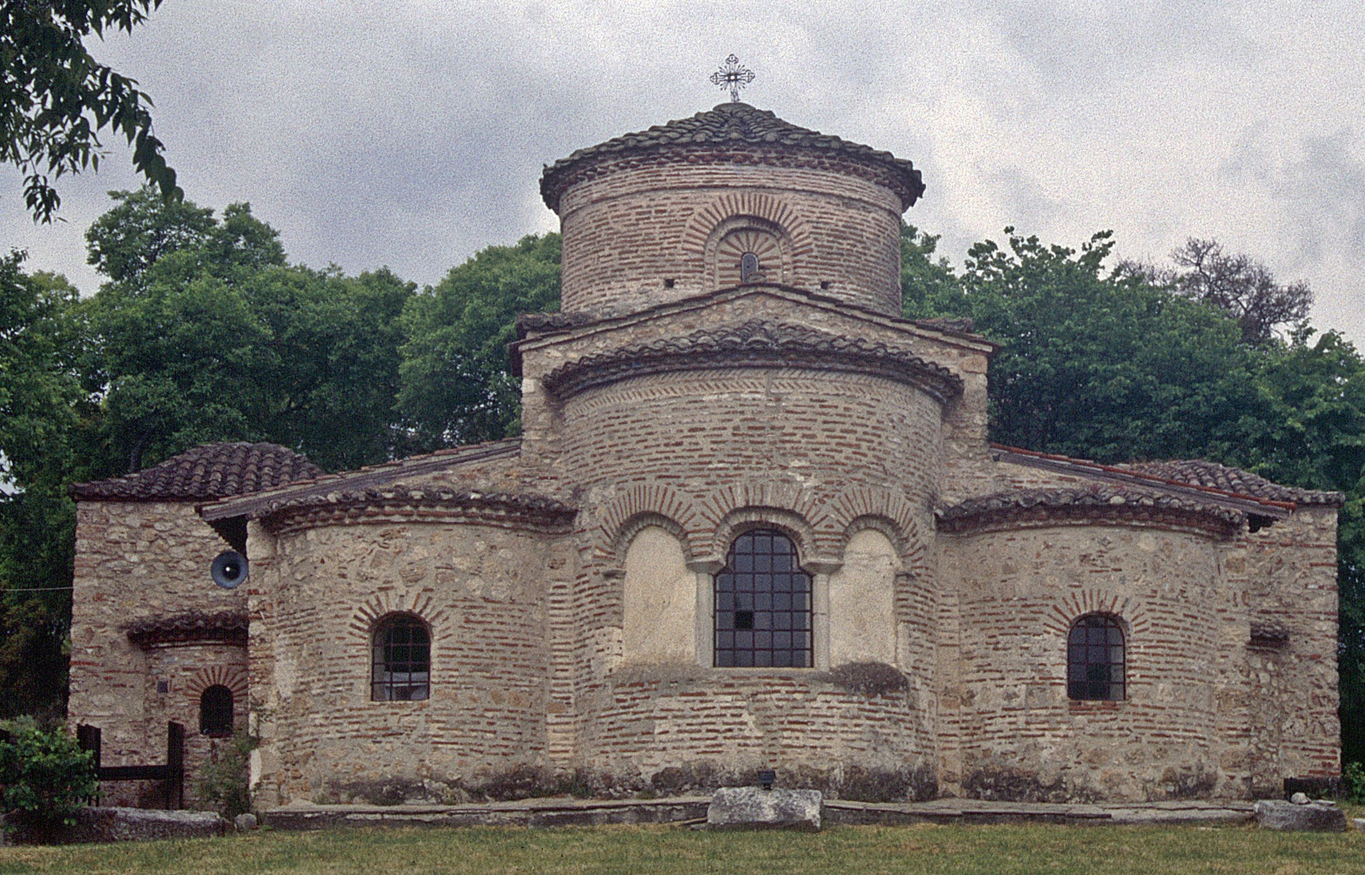 Kondariotissa: Kimisis Tis Theotokou (byzantinische Panagia-Kirche)